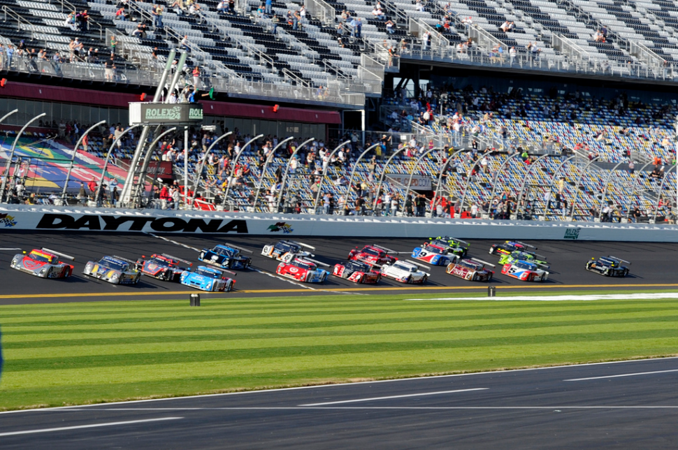 Daytona Prototypes take the green flag at the start of the 49th Rolex 24 at Daytona, January 29-30, 2011. Camera: Nikon D3S License on Flickr (2011-02-10): CC-BY-SA-2.0